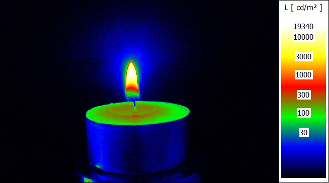 Luminance image, captured with a LMK mobile (Technoteam Bildverarbeitung GmbH), made from 3 HDR images. Luminance calibration of camera performed by Technoteam Bildverarbeitung GmbH. Tealight: common type in Denmark. Gray/black background.